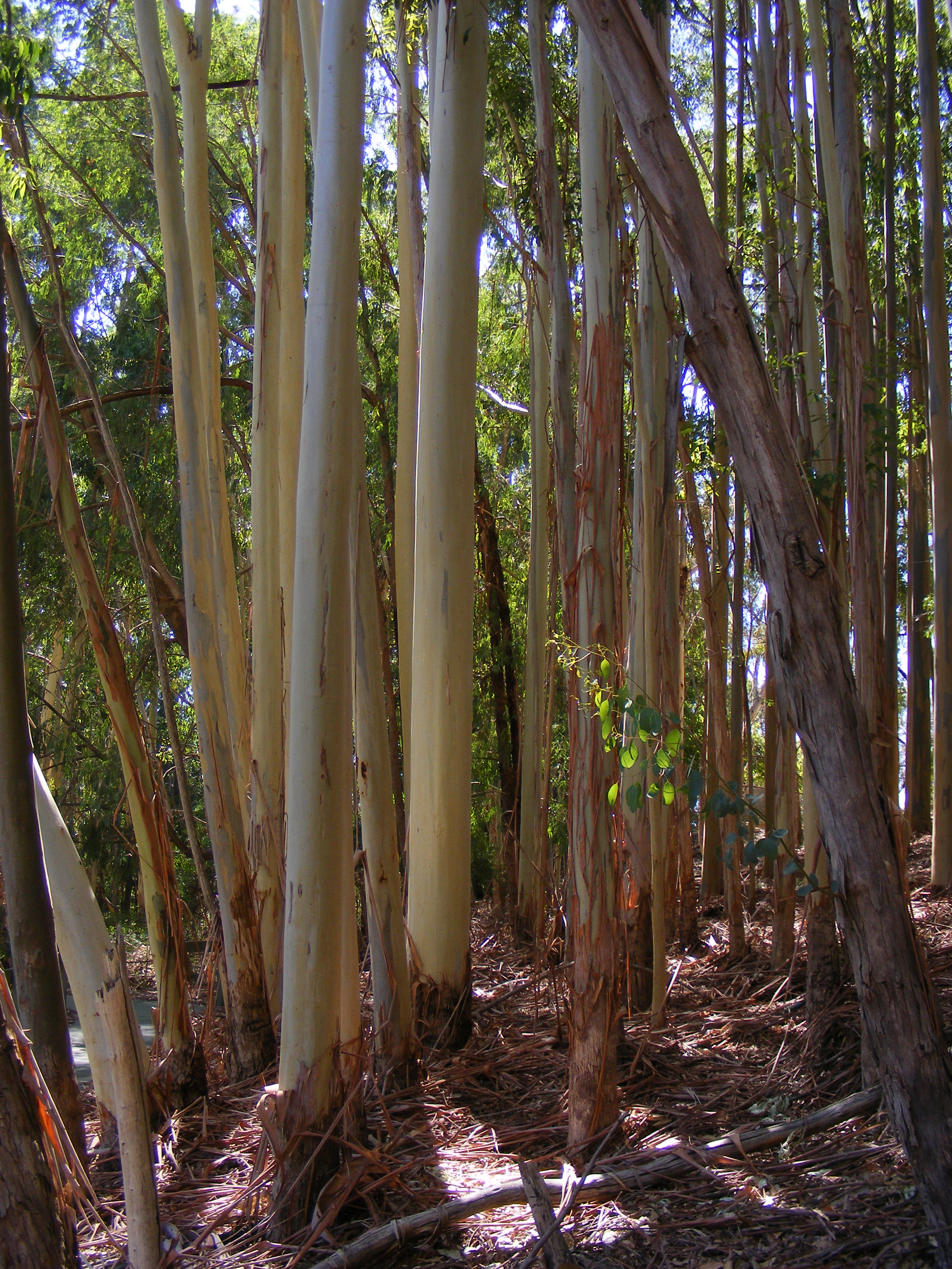 Part of the constructed forest at Warrawong sanctuary - near Mylor in the Adelaide Hills, South Australia